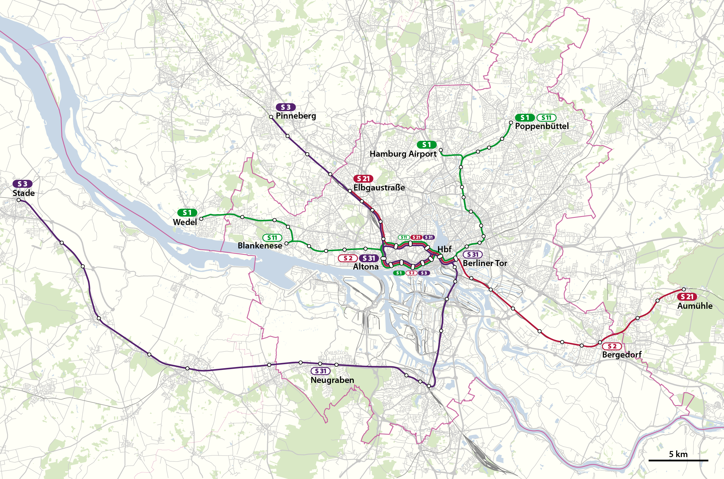 Topographical network map of the Hamburg S-Bahn This map may be incomplete, and may contain errors. Don't rely solely on it for navigation.